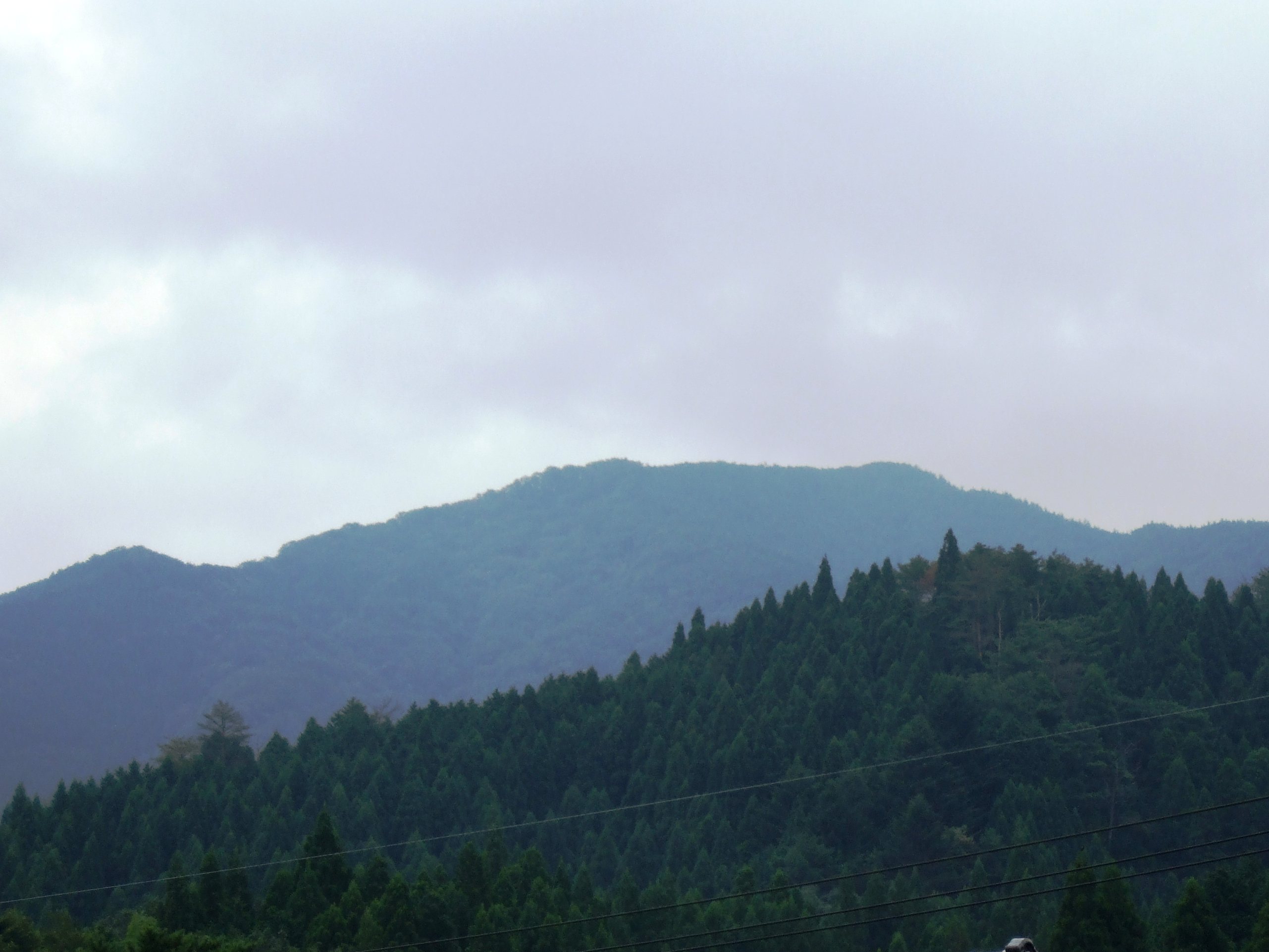 Mount Hobutsu seen from the WNW. Taken at Neu Station.